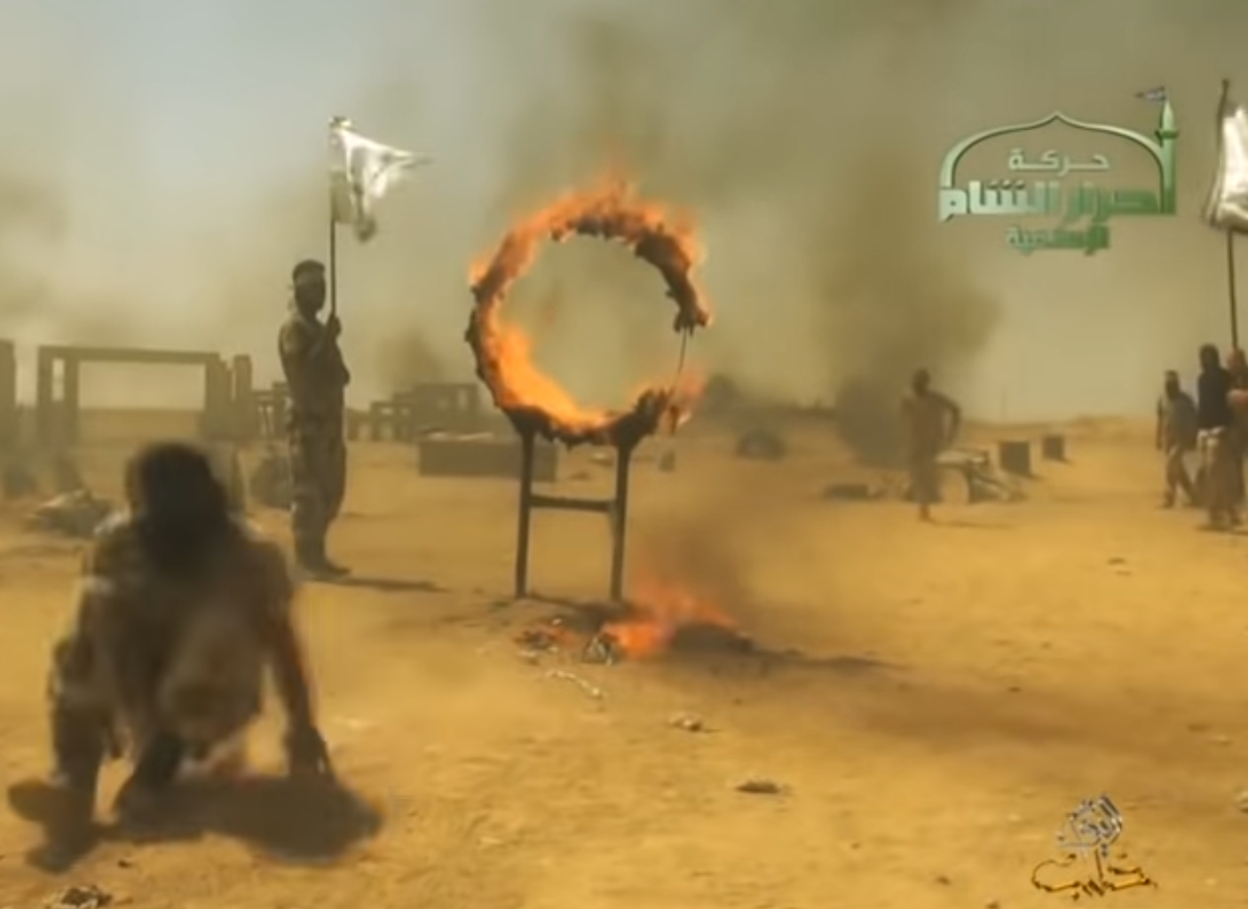 Ahrar al-Sham fighters training